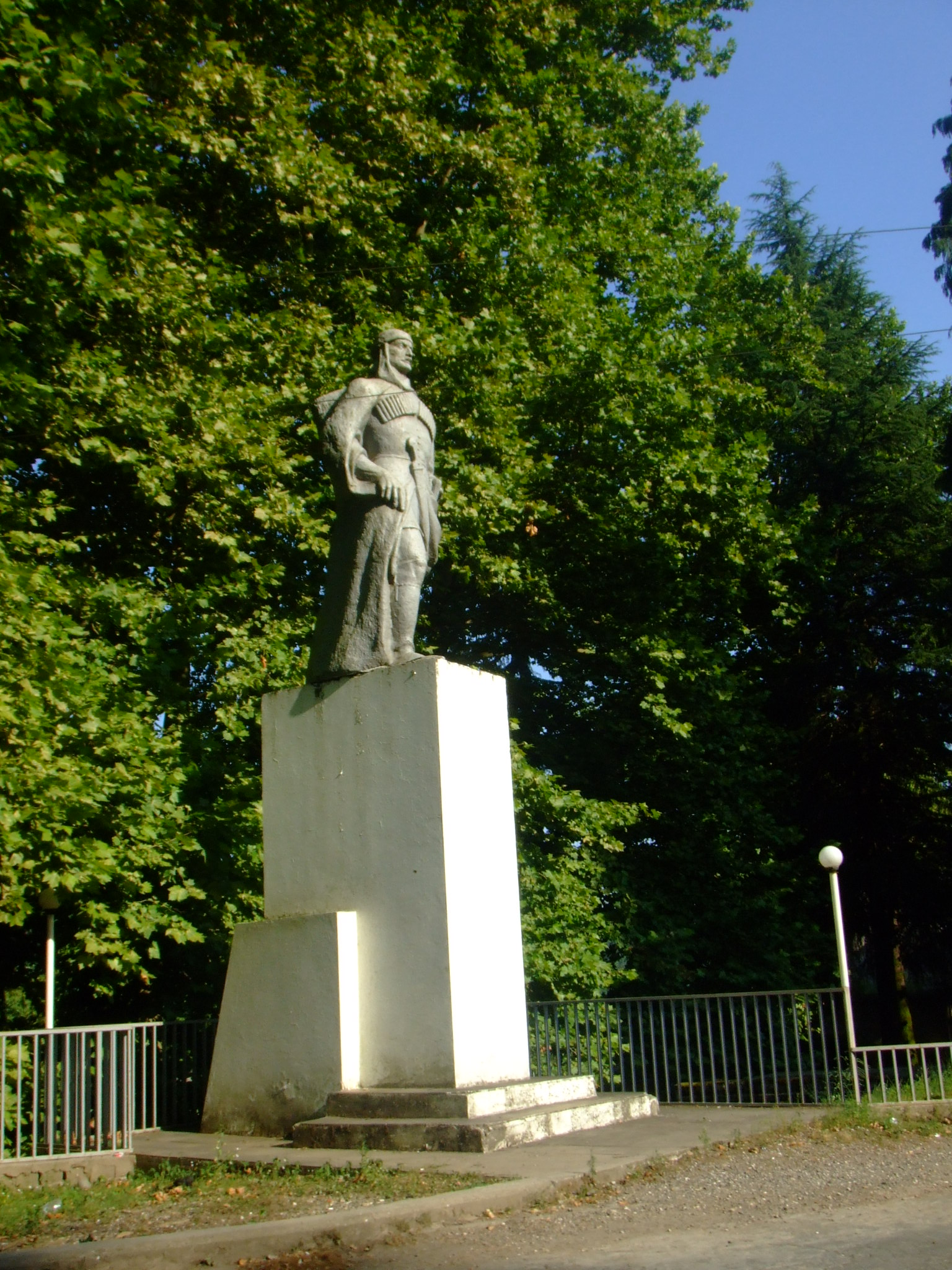 Tsalenjikha, Monument of Utu Mikava (Utu Miqava)